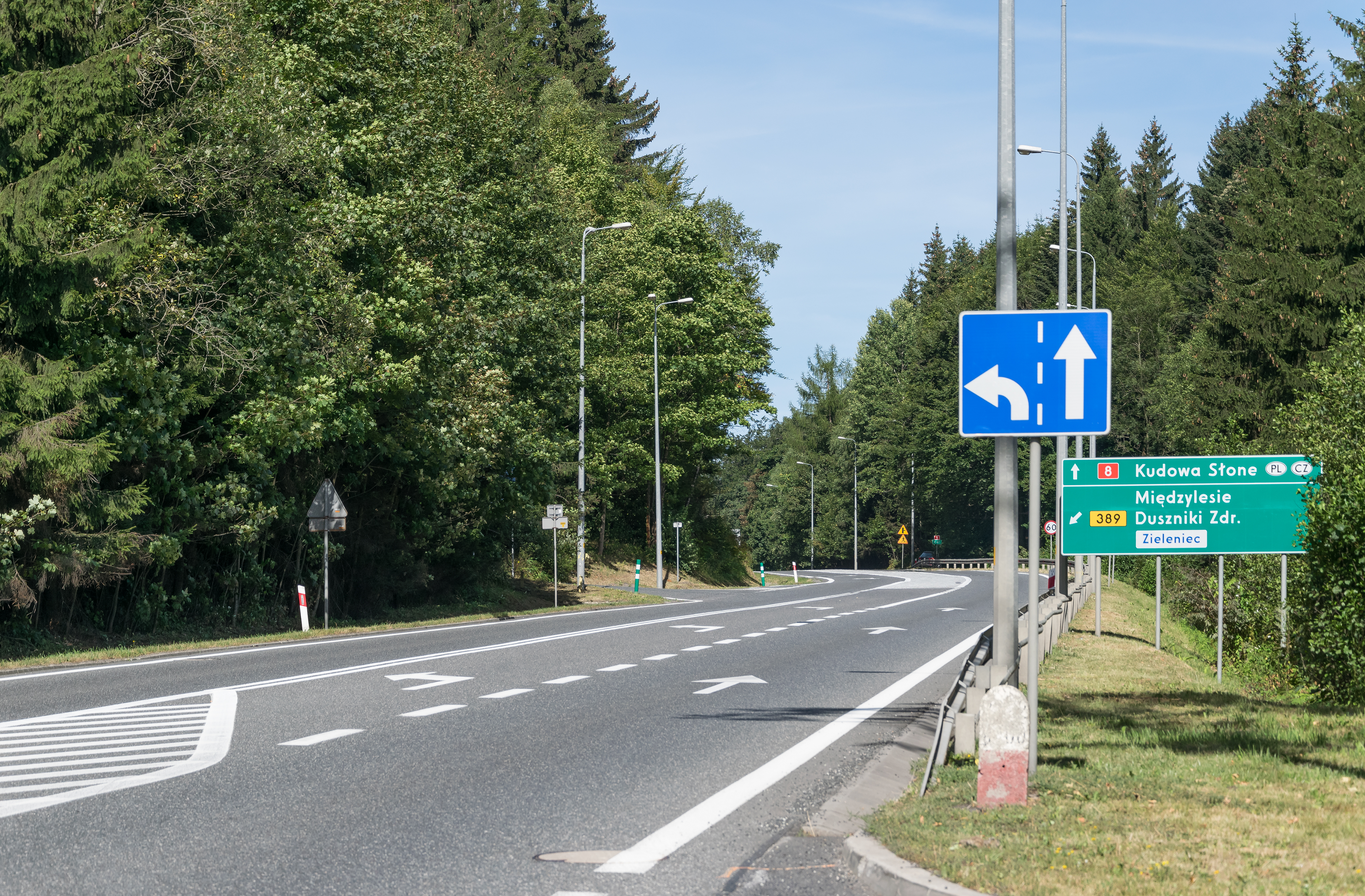 Polskie Wrota pass, Sudetes This is a photography of protected area with CRFOP ID PL.ZIPOP.1393.PN.15